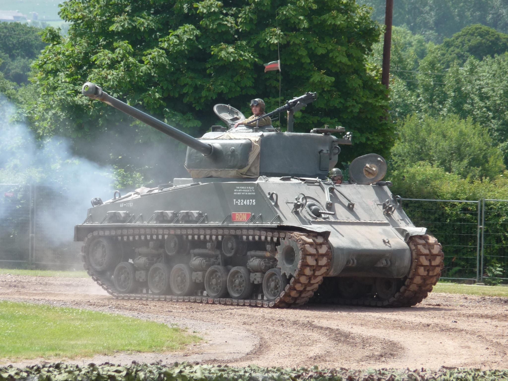 US Sherman (T-224875).